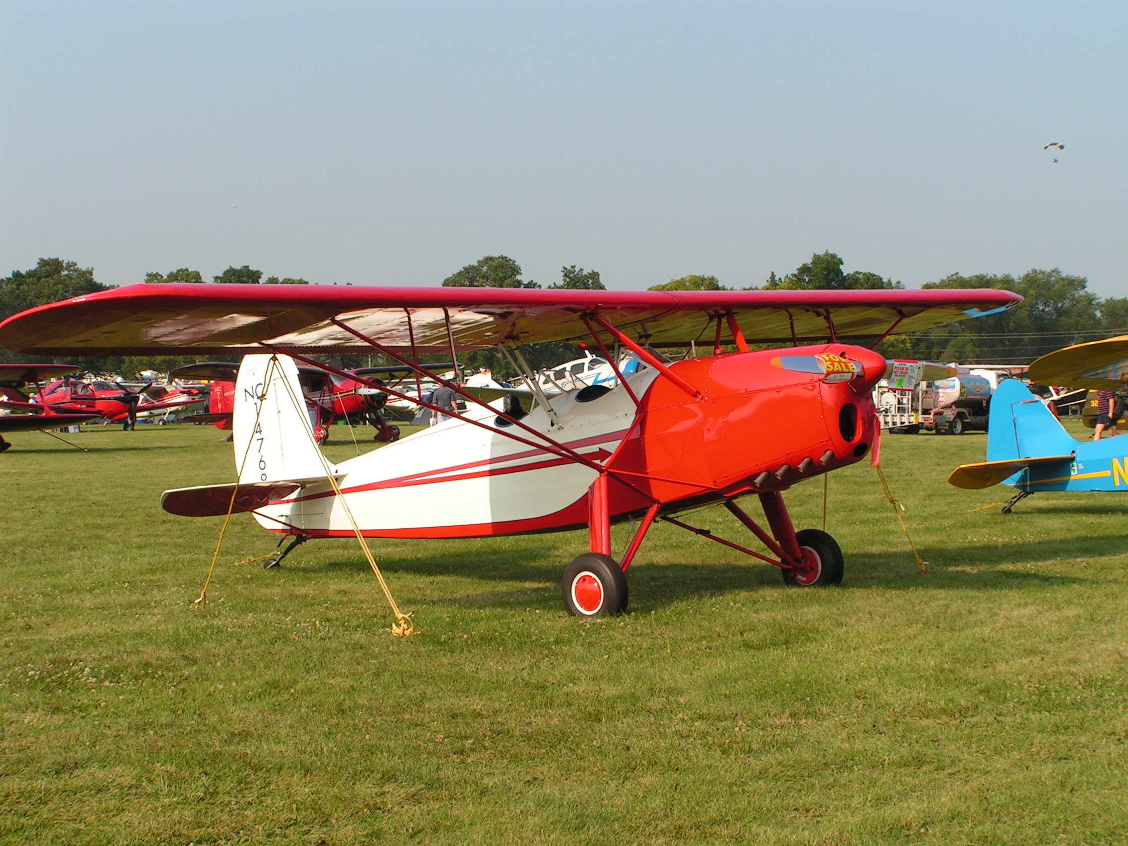 A Fairchild 22 C7D at Oshkosh AirVenture 2004.